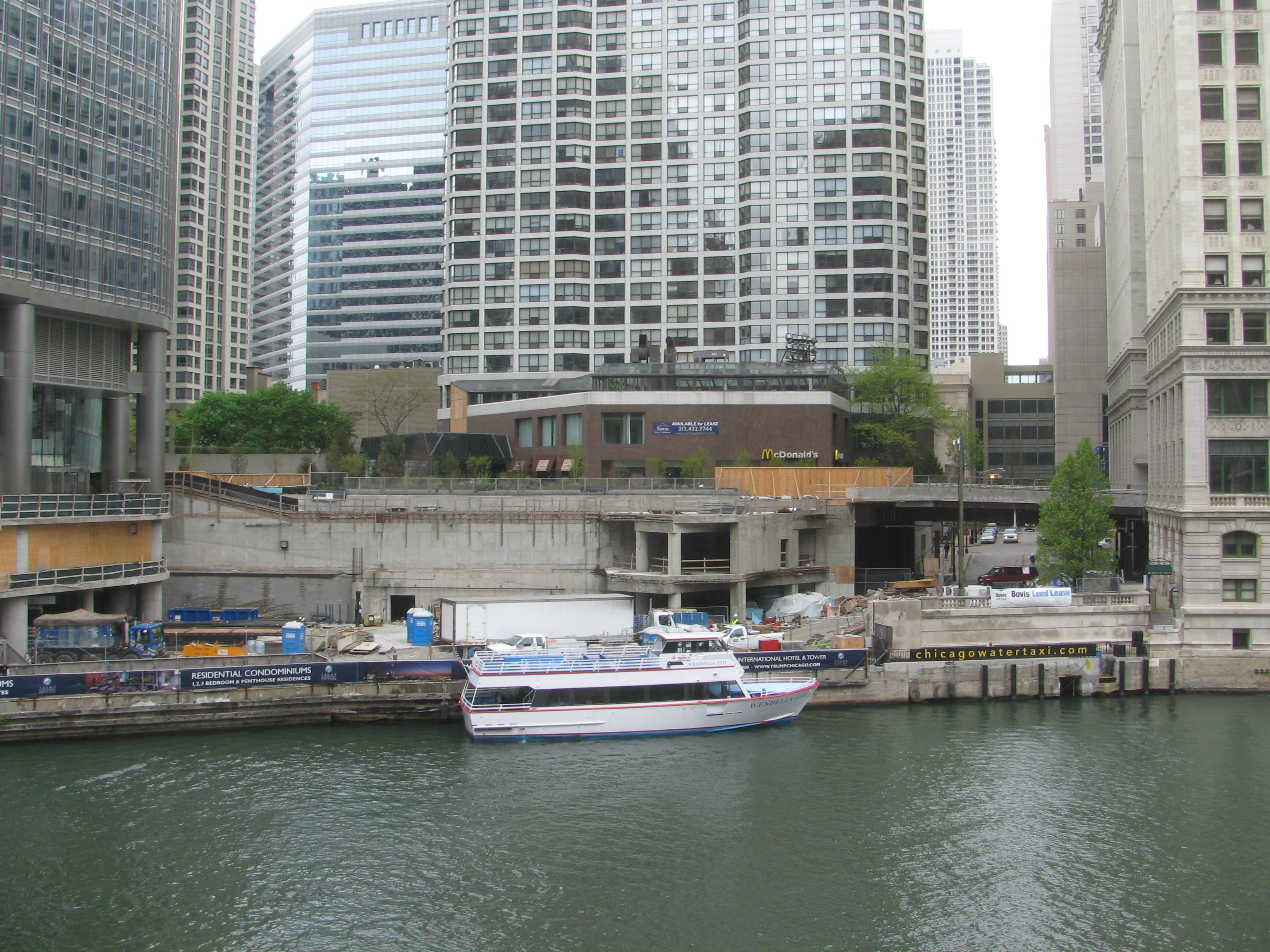 Rush Street from across Chicago River. Foreground, Wendella LTD, a 149-passenger sightseeing boat